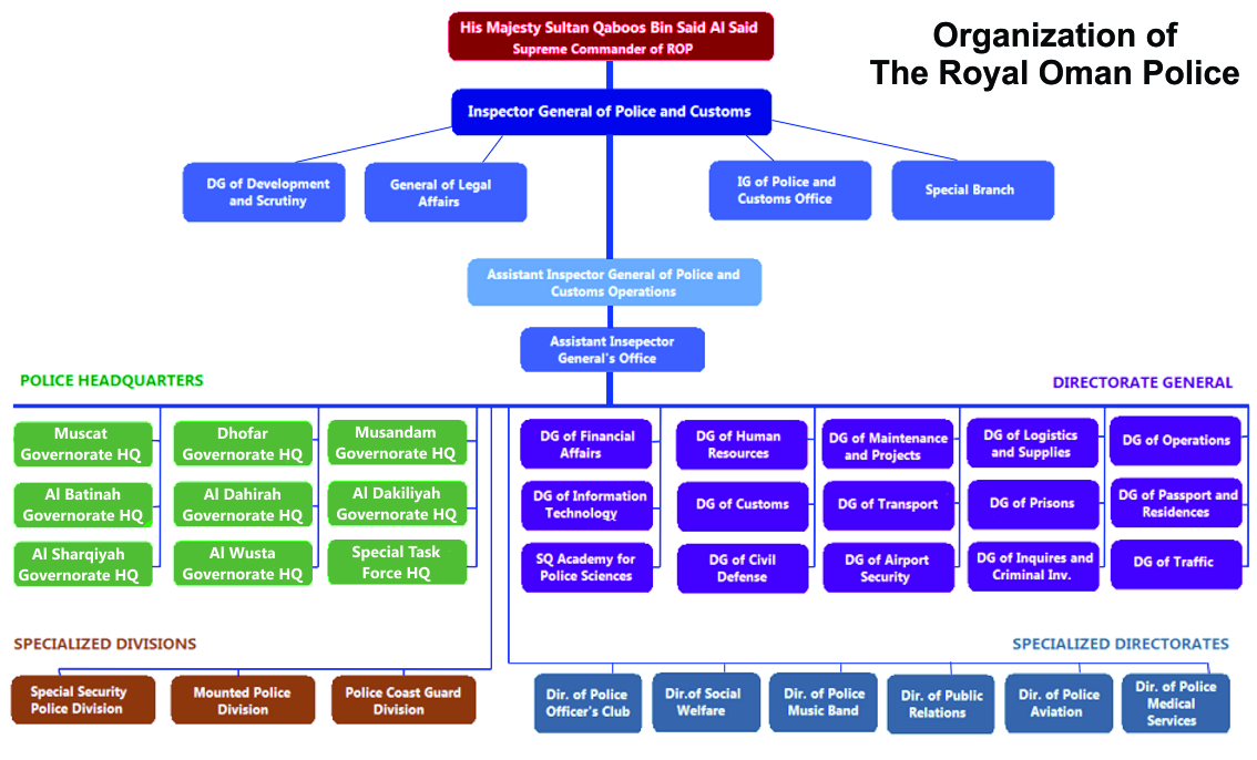 The Image shows the Organization structure of the Royal Oman Police.